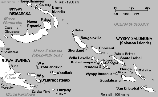 An area of Solomon Islands and Bismarck Archipelago, with places connected with WWII battles (Polish version)